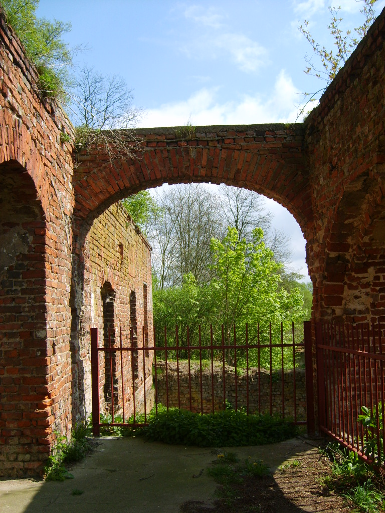 Ruin of Augustinians' cloister in Police-Jasienica (14th century)